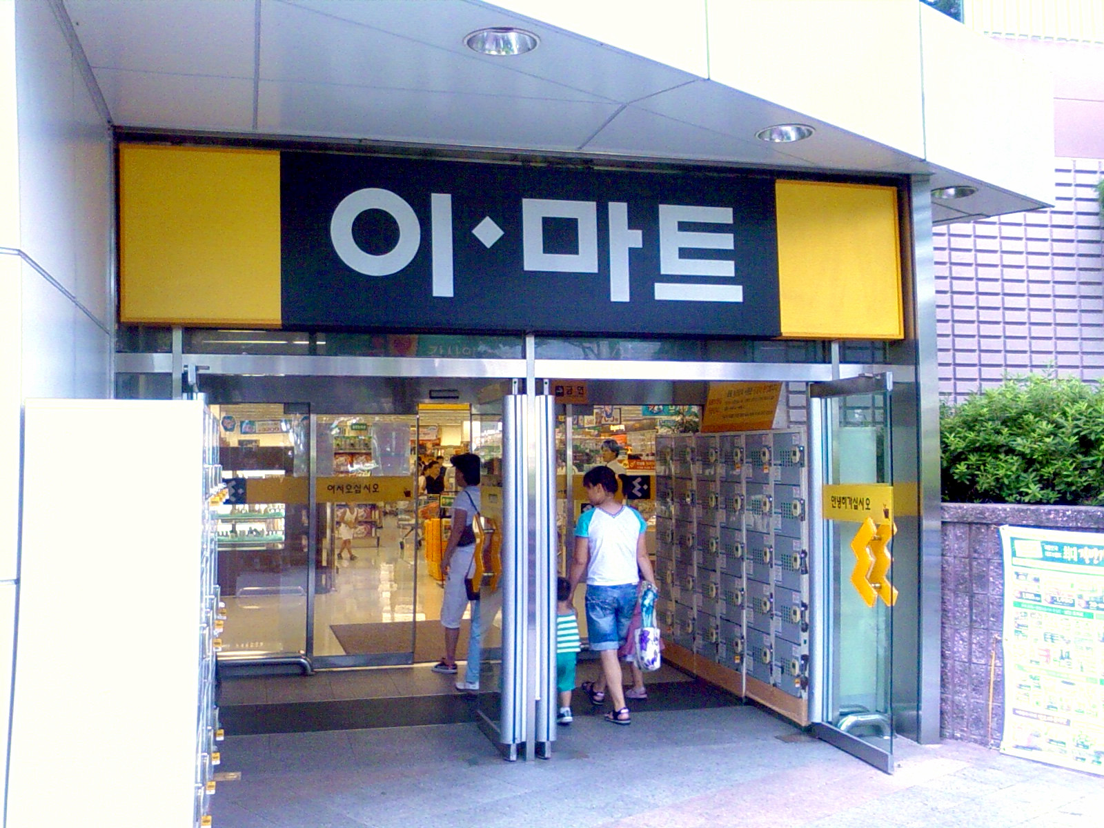 E-Mart in Changwon, South Korea.